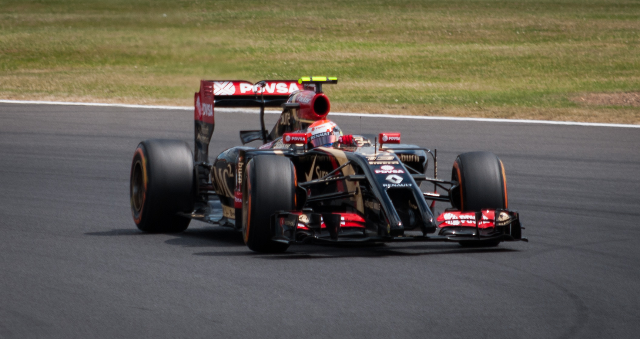 Pastor Maldonado on the Lotus E22 at 2014 British Grand Prix